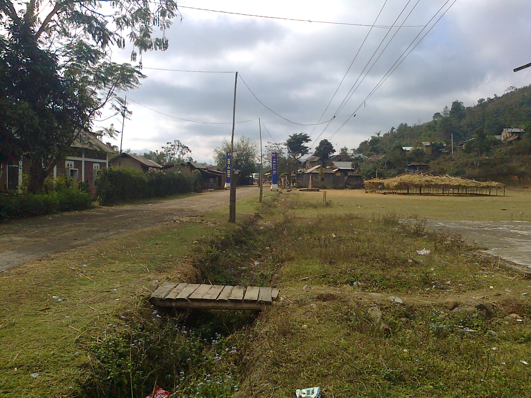 KHOLAI2